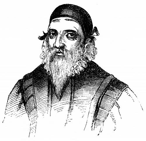 “The most eminent of the names intimately connected with astrology, in modern [1840s] times at least, is that of John Dee (Fig. 2155), a man of remarkable ability and learning, who at the age of twenty made a tour on the Continent for the purpose—unusual with persons of his age—of holding scientific converse with the most eminent European scholars. In 1543 he was made a fellow of Trinity College, Cambridge, just then founded by Henry VIII.; but, five years later, we find him entering into a kind of voluntary exile, by a second Continent expedition, caused by suspicions he had excited at home of his dealings in the Black Art, in which term, however, all kinds of legitimate studies that the vulgar could not understand were included. Dee, for instance, was an able astronomer and a skilful mechanician; and these attainments alone, had he not been an astrologer also, would have sufficed to have made him one in the eyes of the world of England in the sixteenth century.” (p. 218)